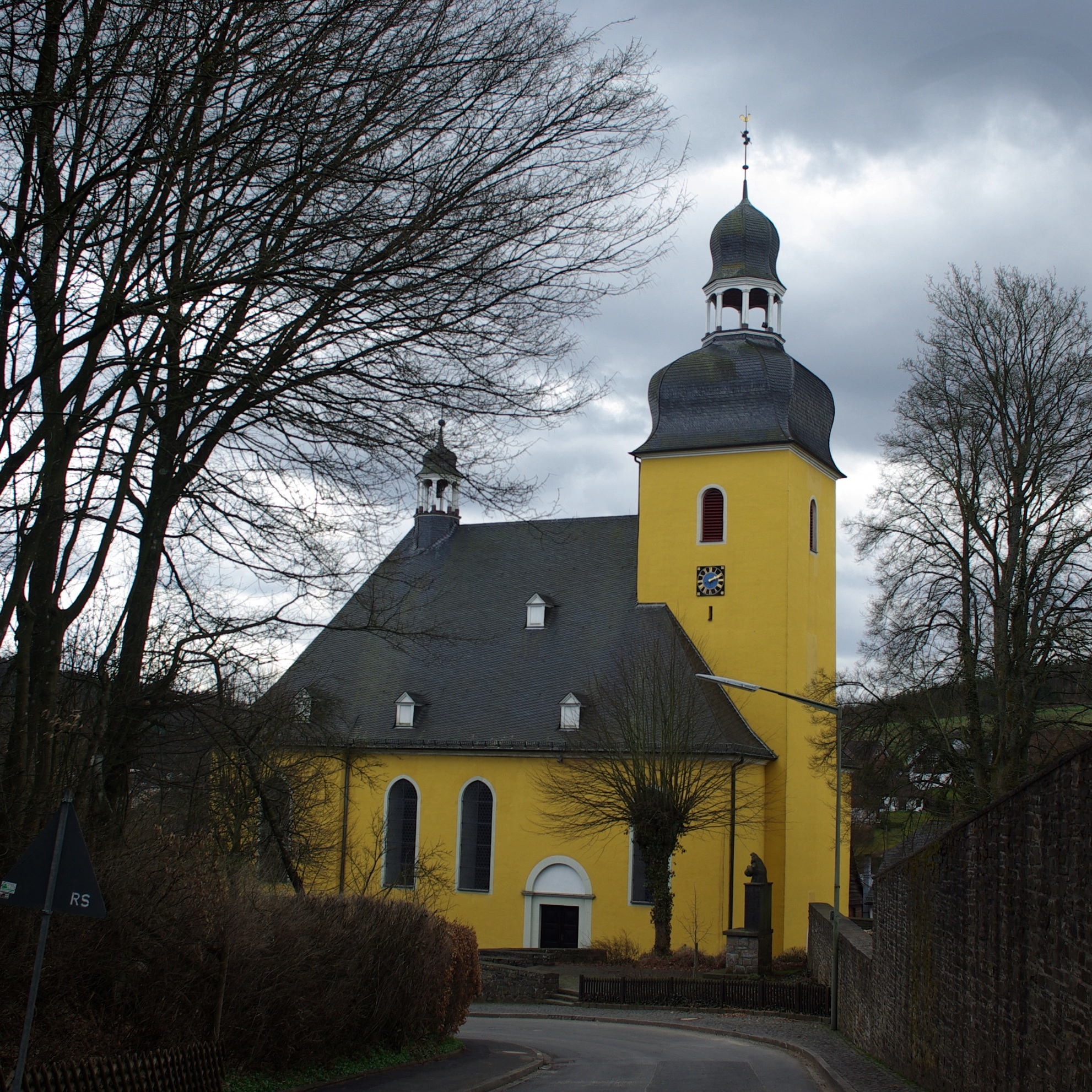 St. Sebastianus Church in Friesenhagen, District of Altenkirchen